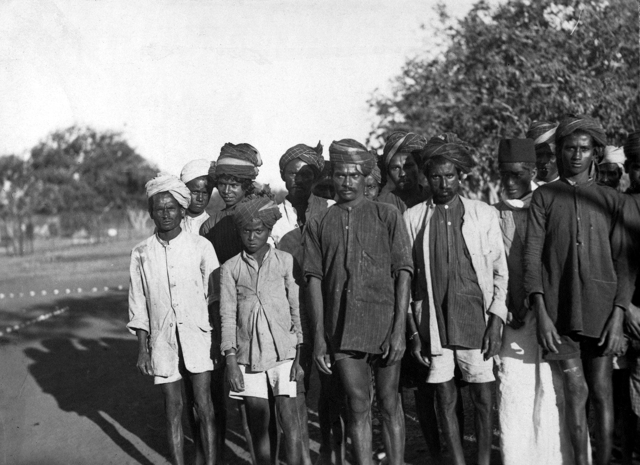 A school of untouchables near Bangalore, by Lady Ottoline Morrell (died 1938).